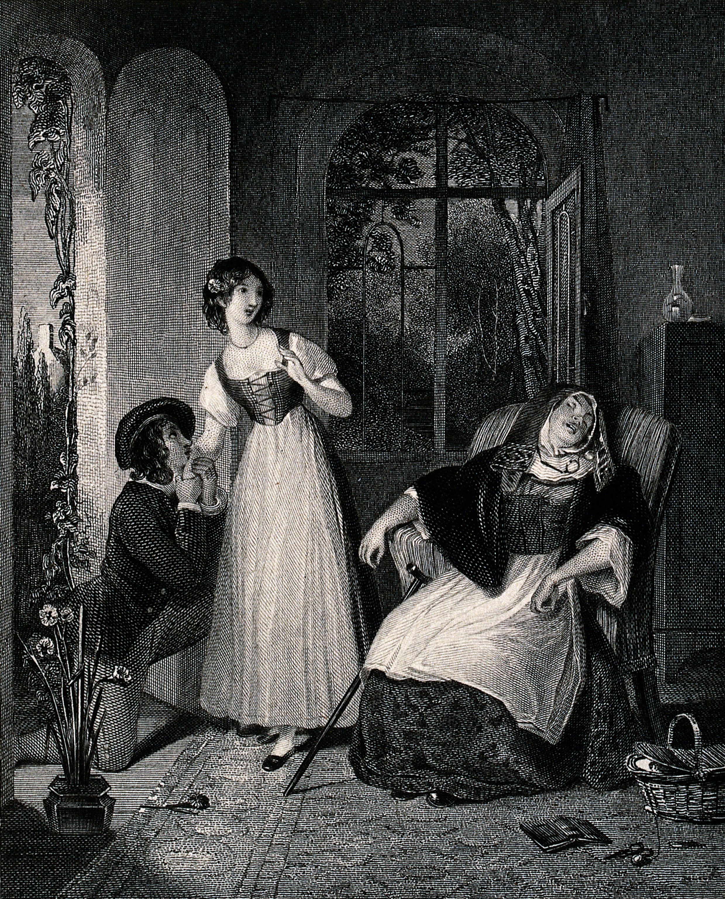 While her chaperone sleeps a young girl keeps watch on her as her lover on bended knee kisses her hand. Engraving by H.C. Shenton after F.P. Stephanoff.